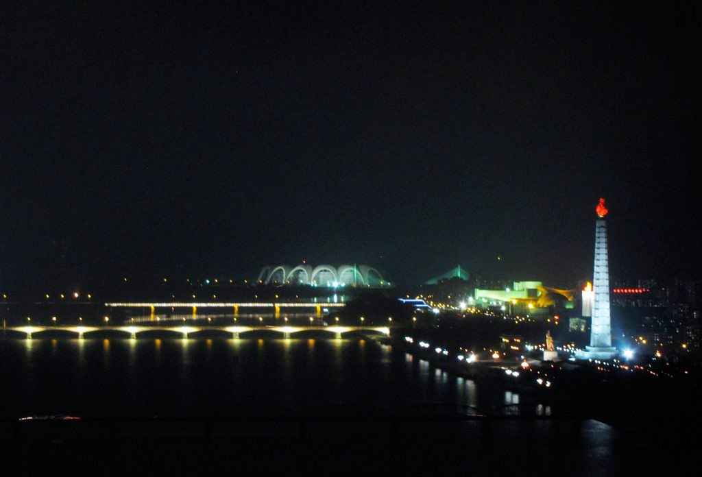 Pyongyang, DPRK (North Korea).